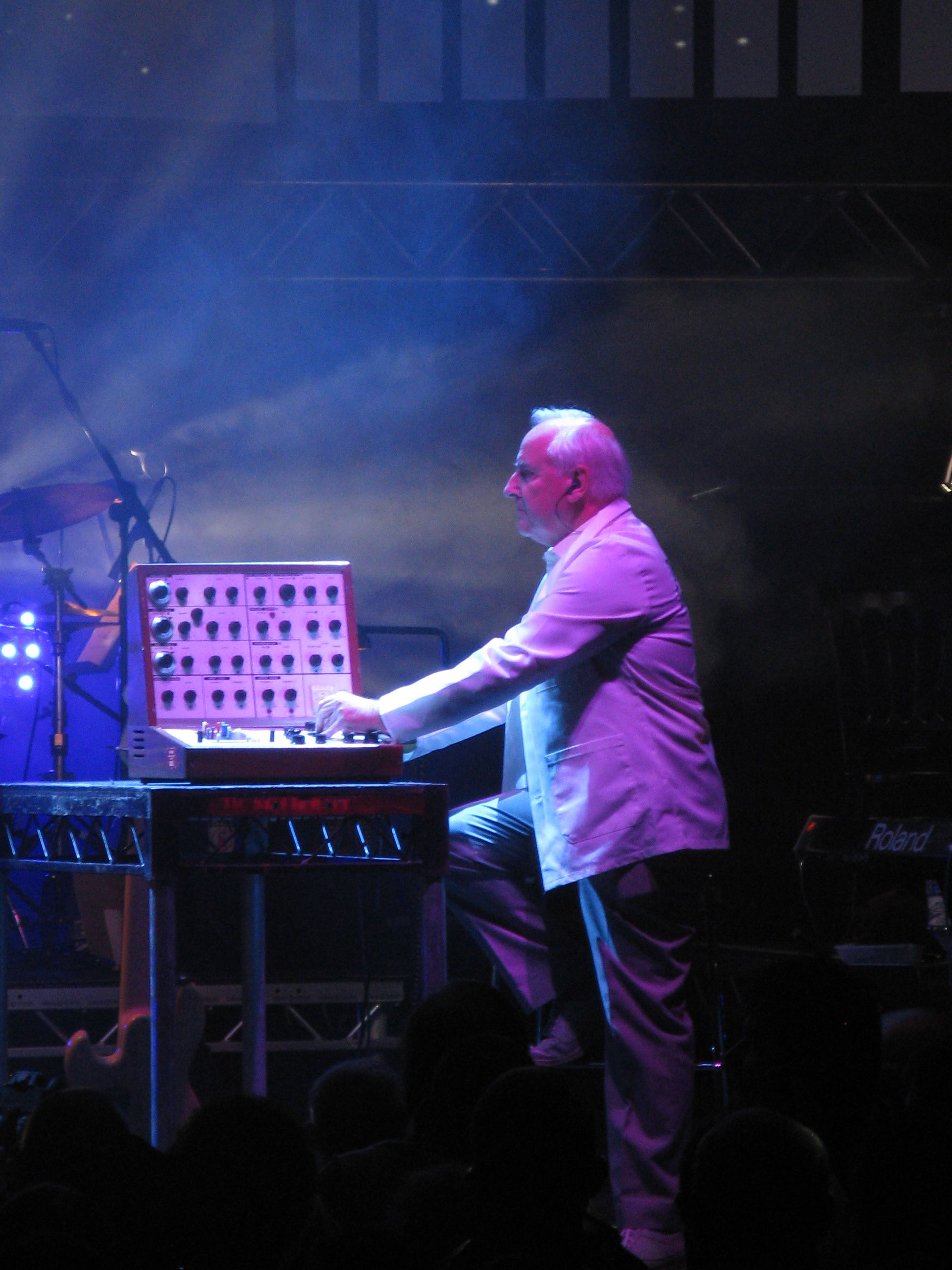 Dick Mills, BBC Radiophonic Workshop at the Roundhouse, 2009-05-17